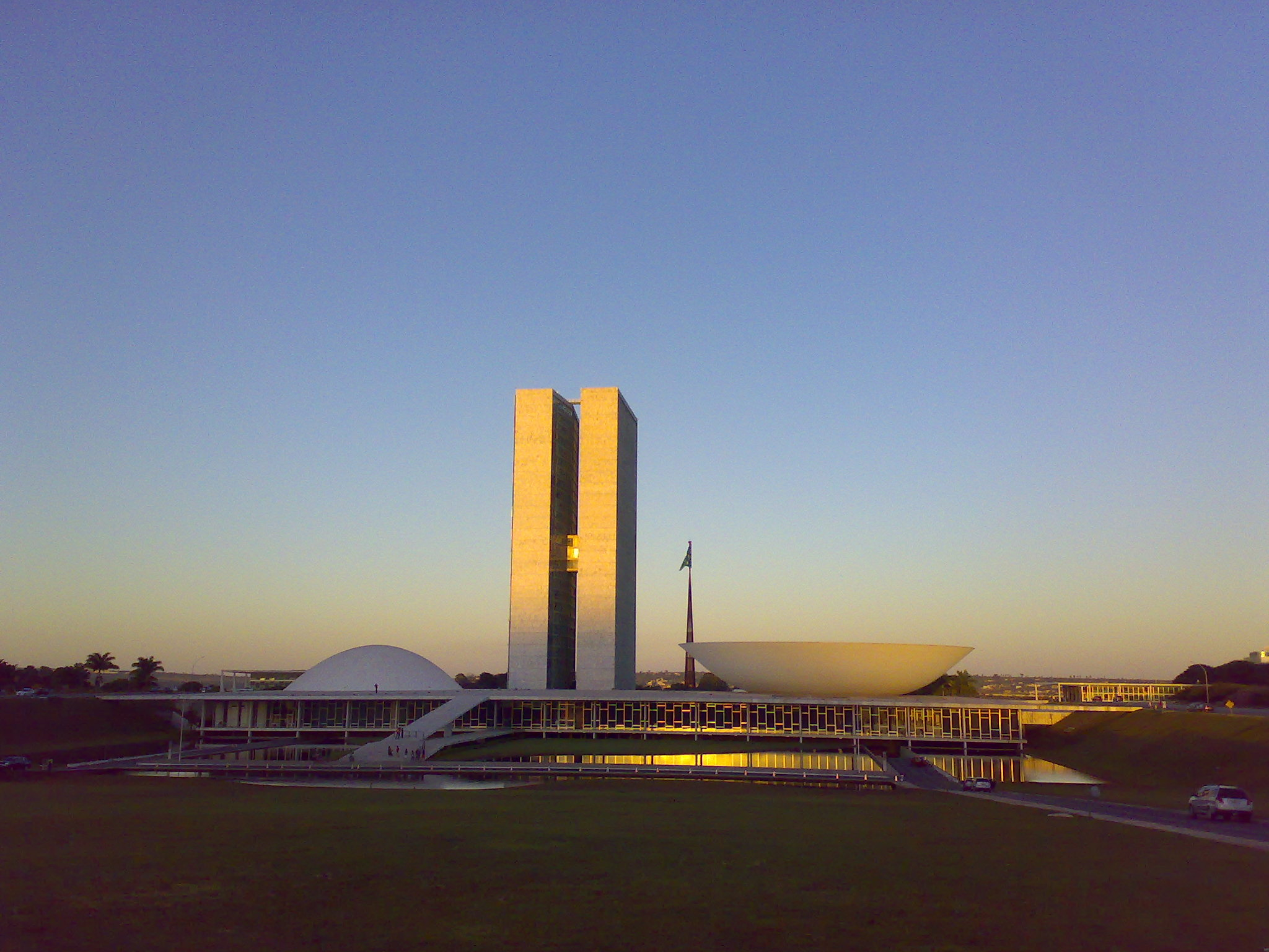 Brazilian National Congress.